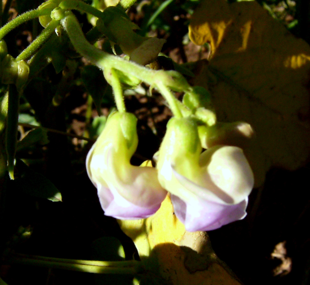 Phaseolus vulgaris flowers, cultivar Contender, Castelltallat, Catalonia